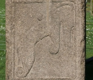 Pictish Beast as shown Maiden Stone (near Inverurie, Scotland)